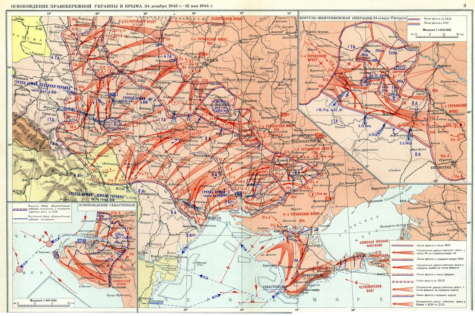 Liberation of Ukraine